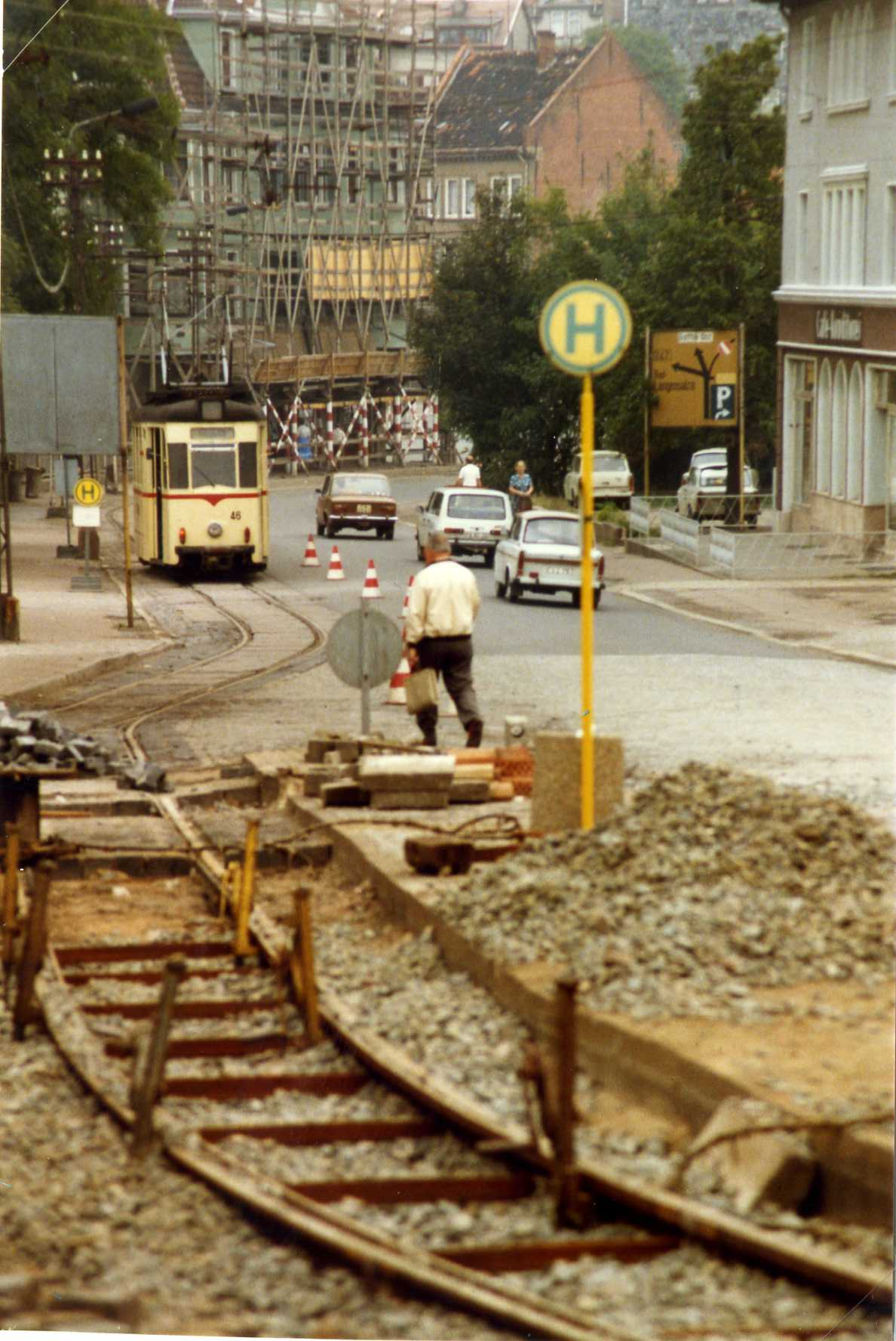 Gotha manufactured car 46 a double-ended motor tram waits at the temporary stub terminus of route 2 to the Ostbahnhof. Normally, this service would continue to the Hauptbahnhof. Wooden scaffolding was common in the GDR at that time No 46 was one of 5 double ended T57 Gotha cars operated in the town of their manufacture. Picture shows Hersdorfstrasse, looking towards Hersdorfplatz.